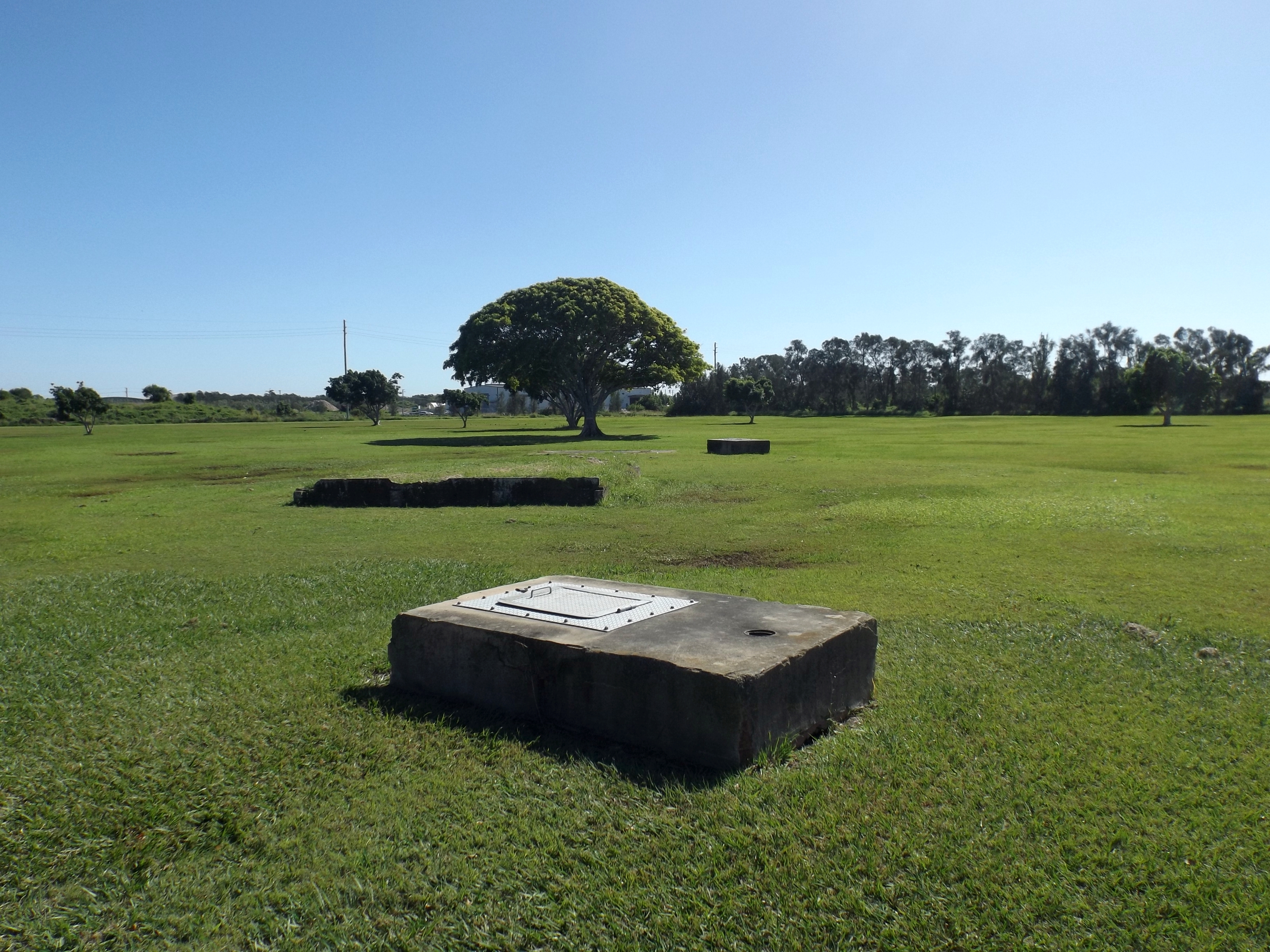 Photo of RAN Station 9 concrete slabs at Pinkenba, Brisbane, Queensland, Australia.